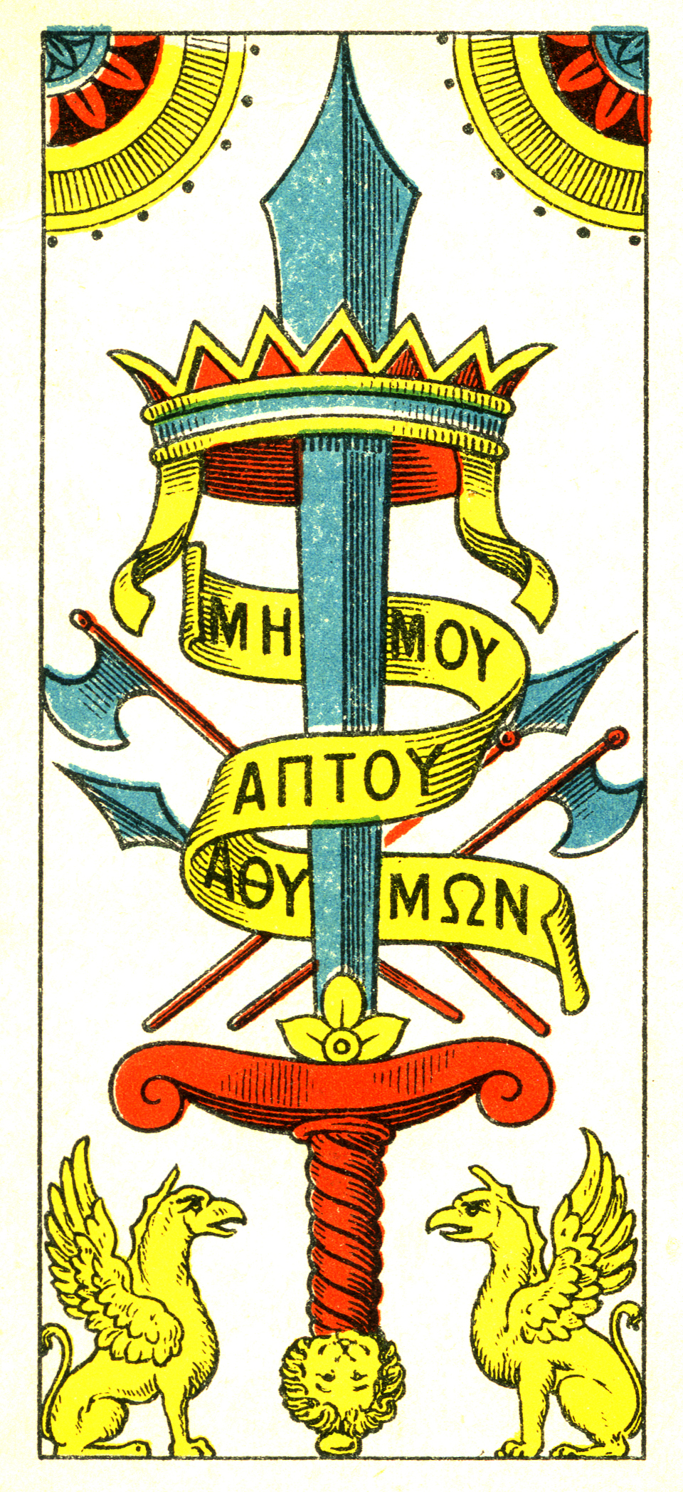 Ace Spade. The Venetian type playing card produced by Aspiotis.